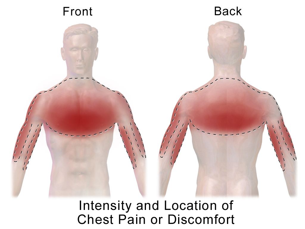 An illustration depicting a heart attack and chest pain.